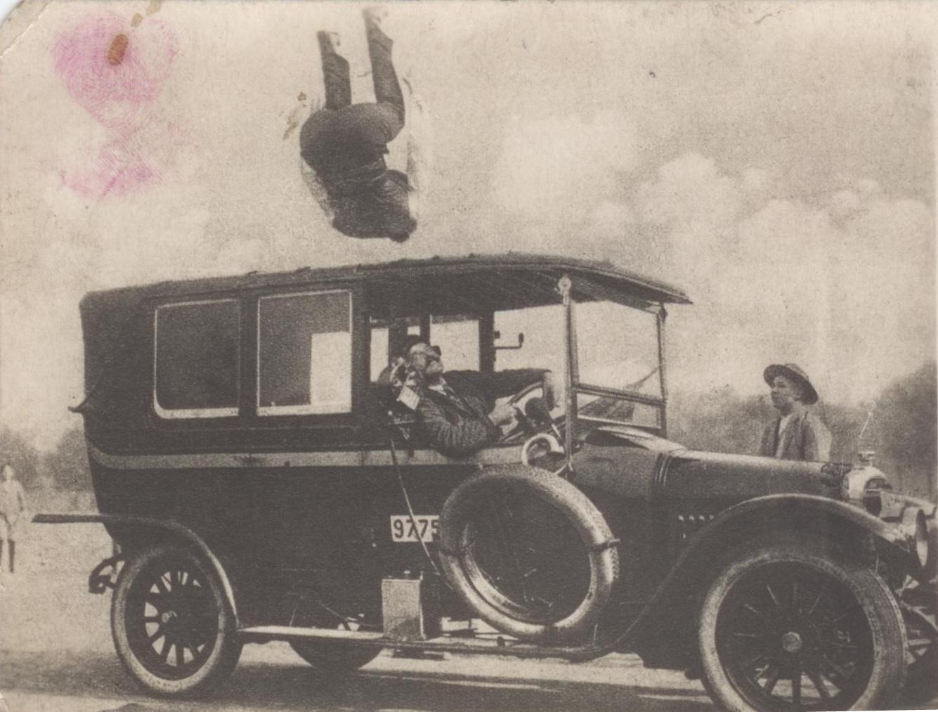 Bulgarian circus performer Lazar Dobrich, Bordeaux, 1908